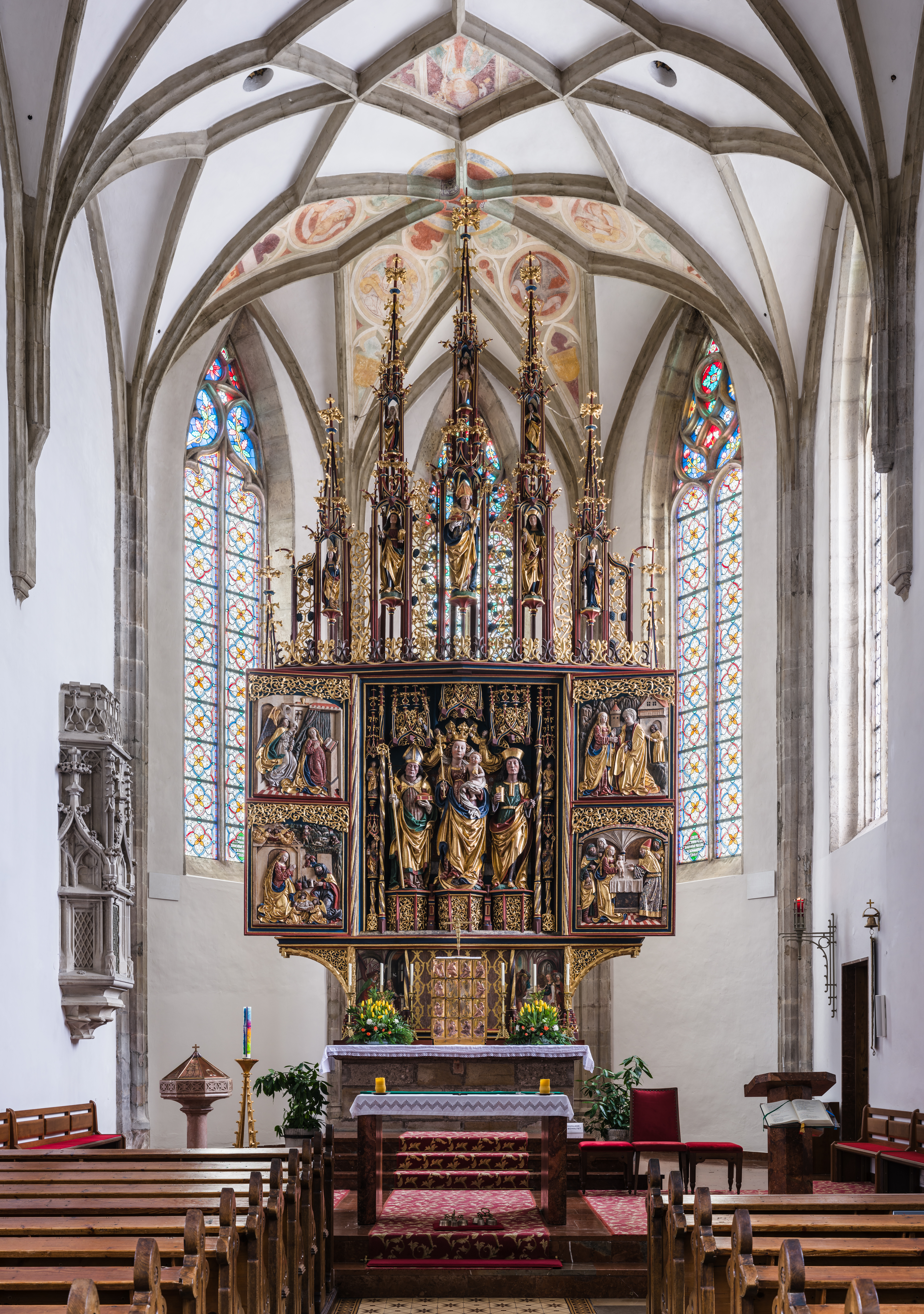 Winged altar at the parish church Gampern, Upper Austria. Lienhart Astl, around 1490–1500.